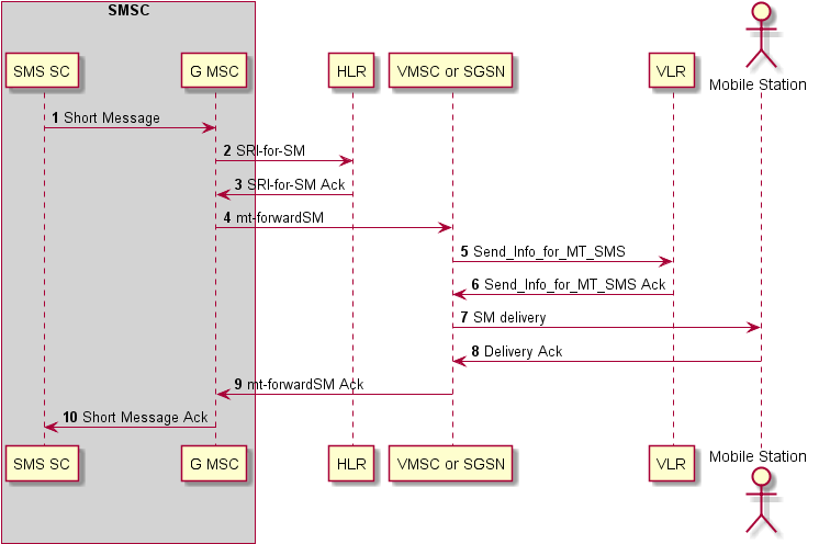 SM Delivery Call Flow